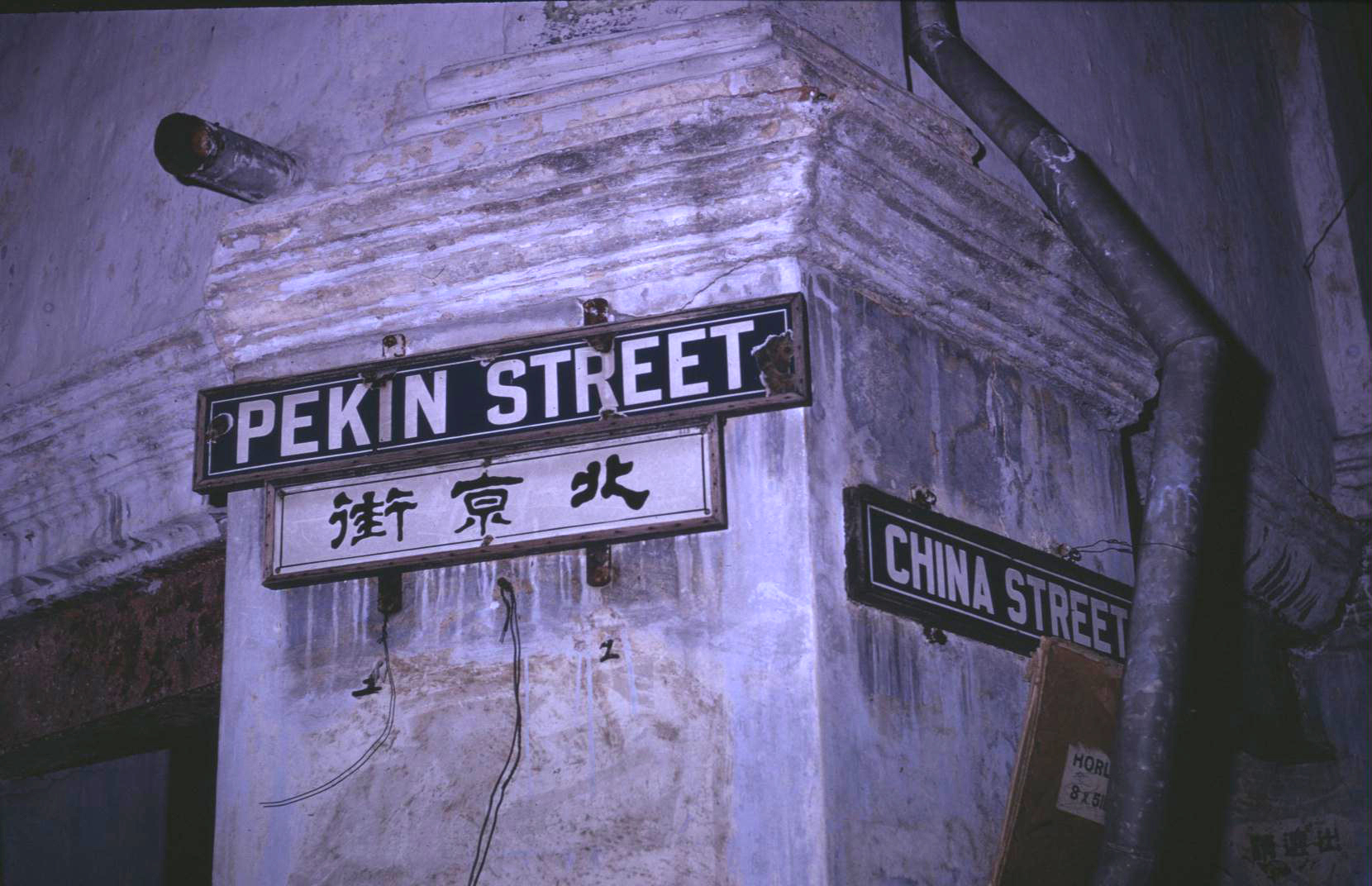 Junction of Pekin Street and China Street, Singapore, photographed February 1969 × July 1971. Latitude 1.284099°, Longitude 103.848053°.